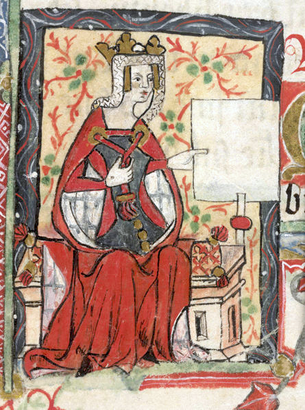 Portrait of Empress Mathilda, from "History of England" by St. Albans monks (15th century); Cotton Nero D. VII, f.7, British Library